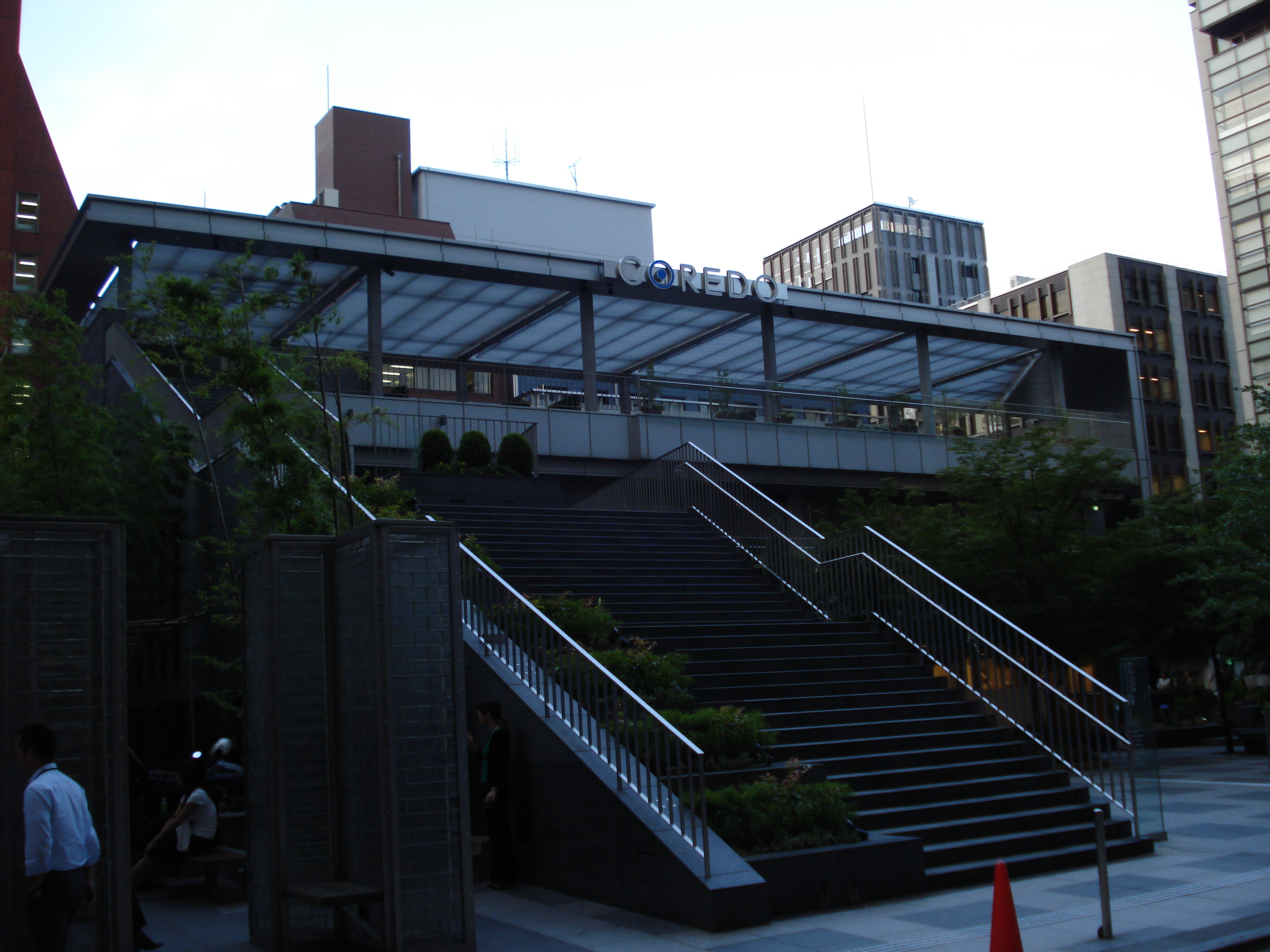 Building